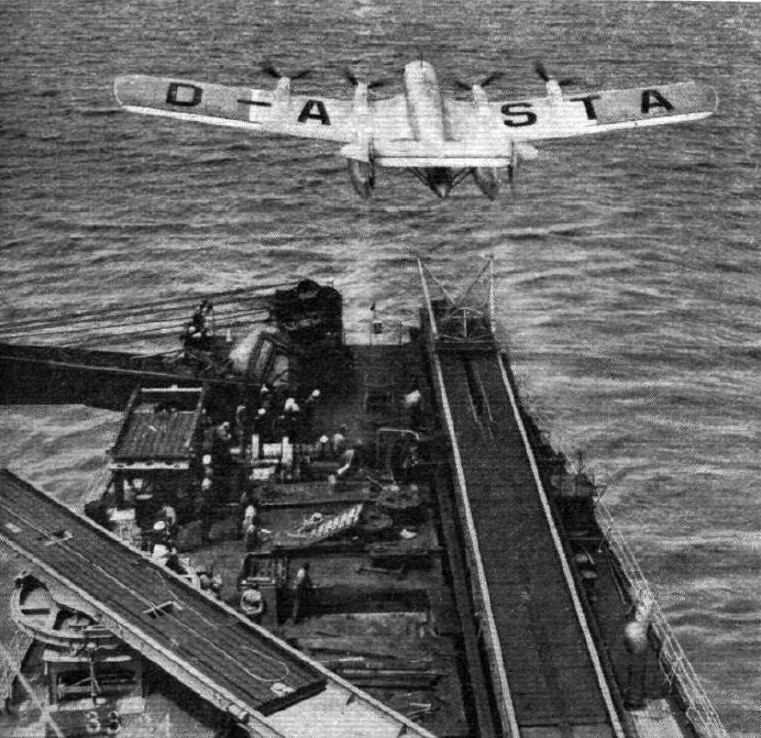 The German Lufthansa Blohm & Voss Ha 139 "Nordstern" taking off from the catapult ship Friesenland.